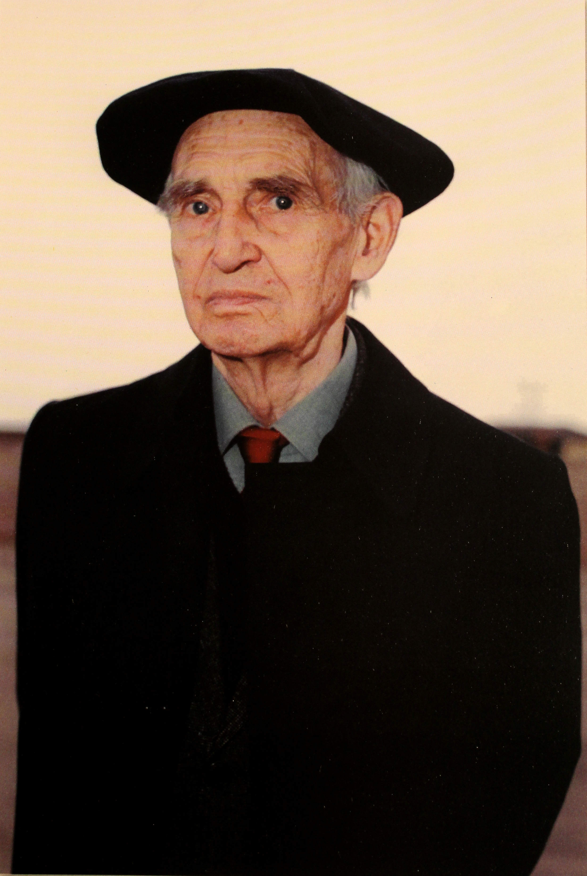 Armin Wagner